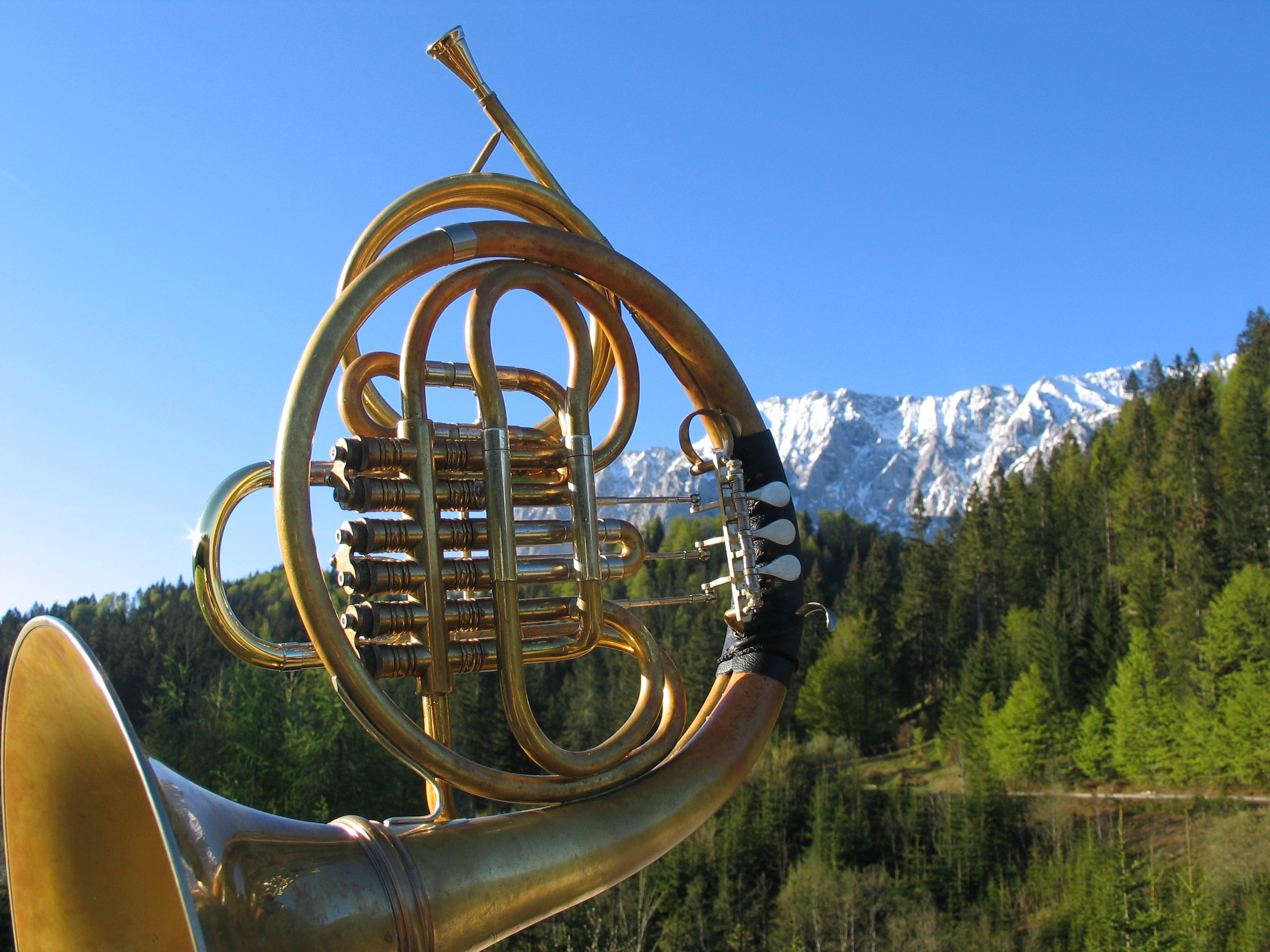 Vienna horn Wiener horn Taken at 07:12 in the morning, at Elmau in Bavaria. This is a Haagston Vienna Horn, fitted with a Jungwirth crook, a Hans Pizka mouthpiece cup, and a Paxman 4X rim.